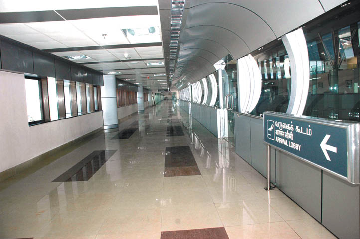 Trichy airport connecting hall